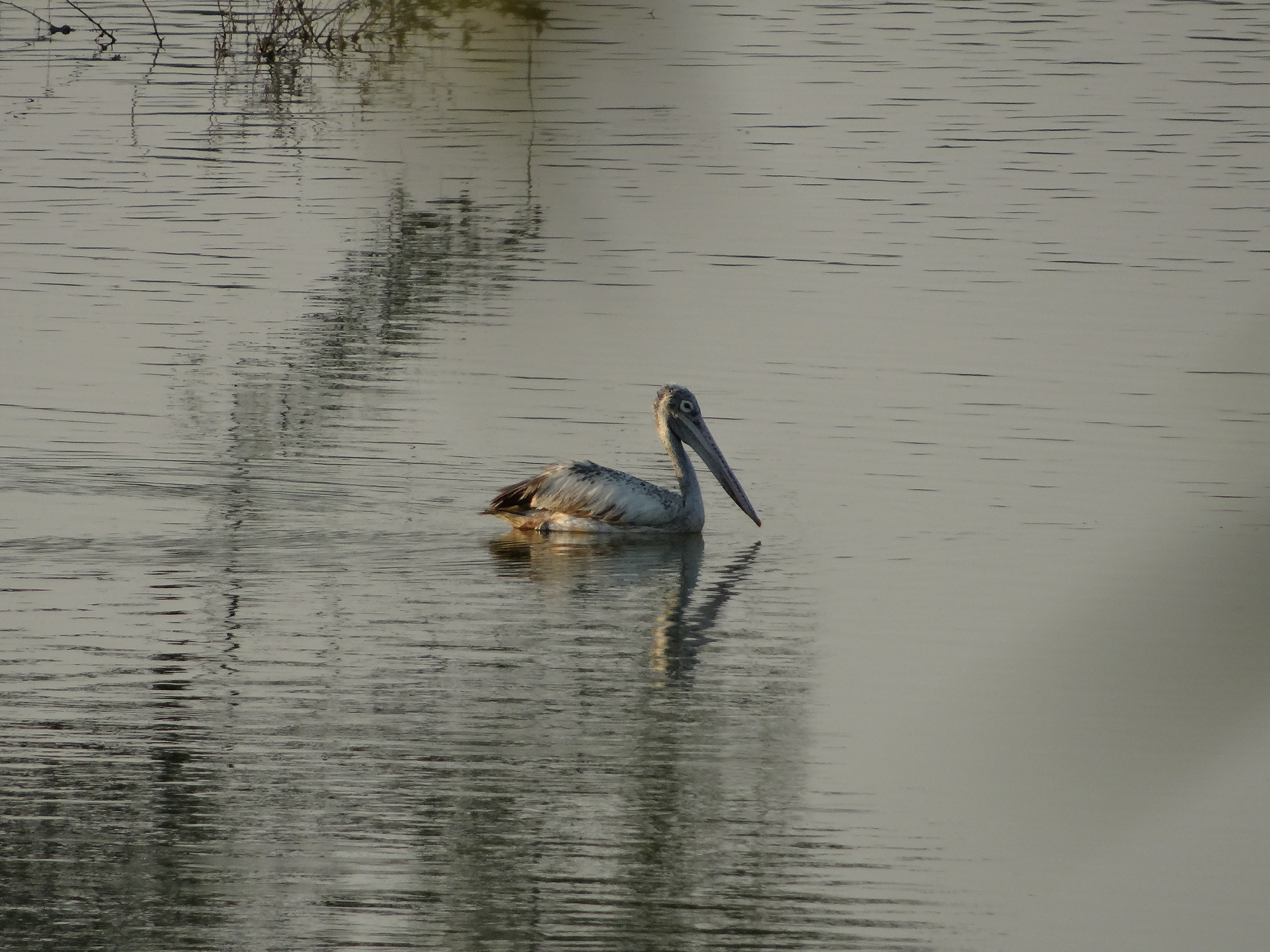 bird at vellode bird sanctuary picture by Dr.shivram sagar